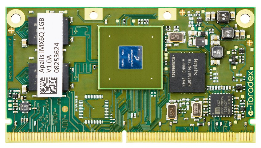 Toradex Apalis i.MX6 Freescale computer on module product image.